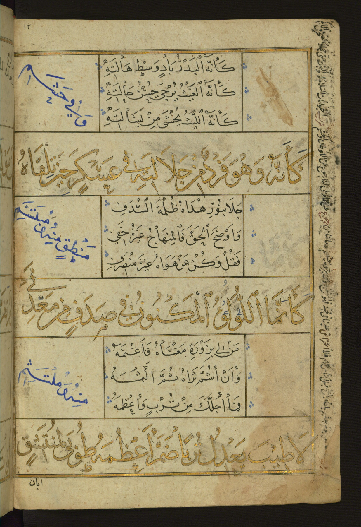 شعر قديم.